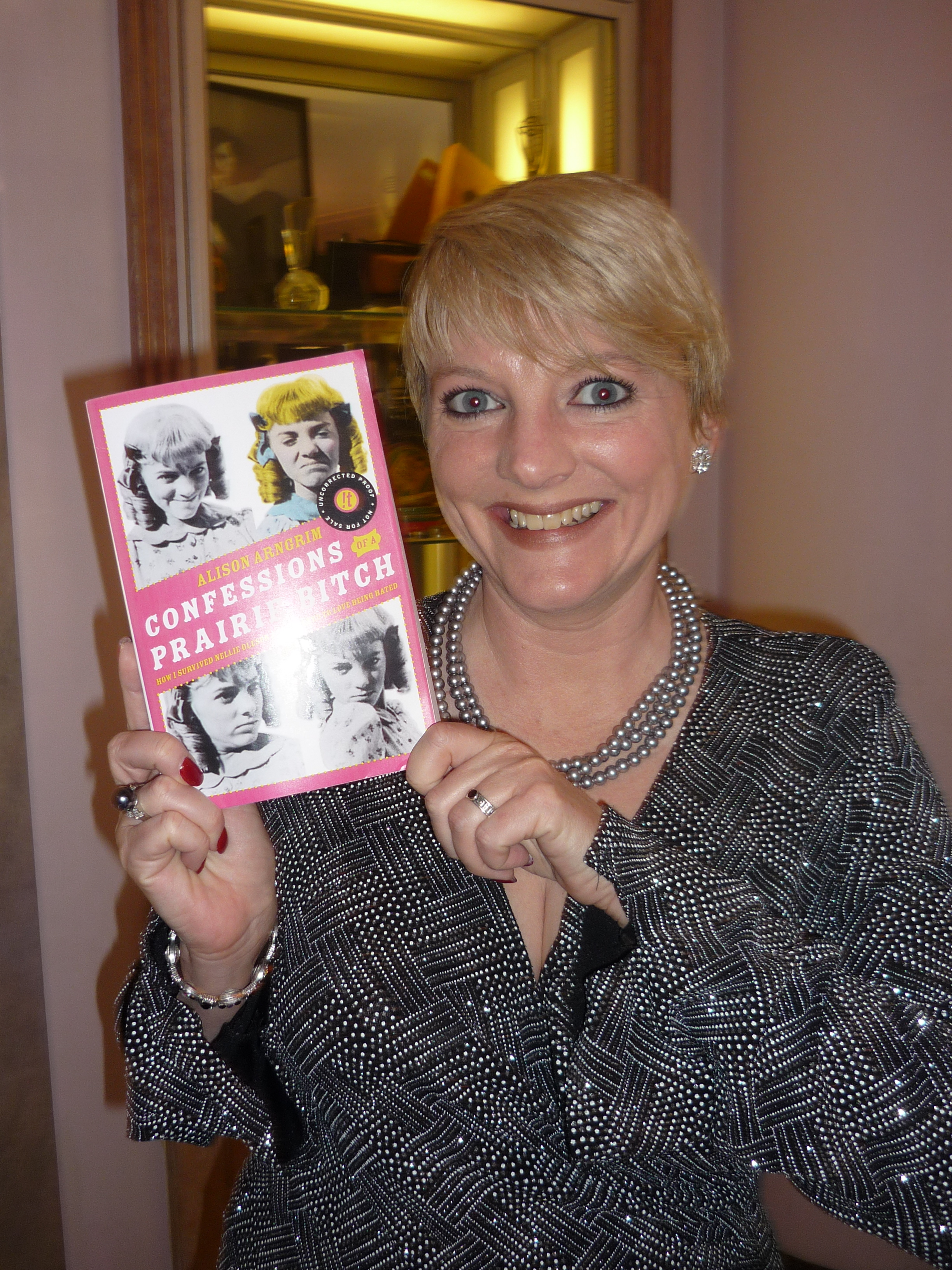 Alison Arngrim in May 2010.